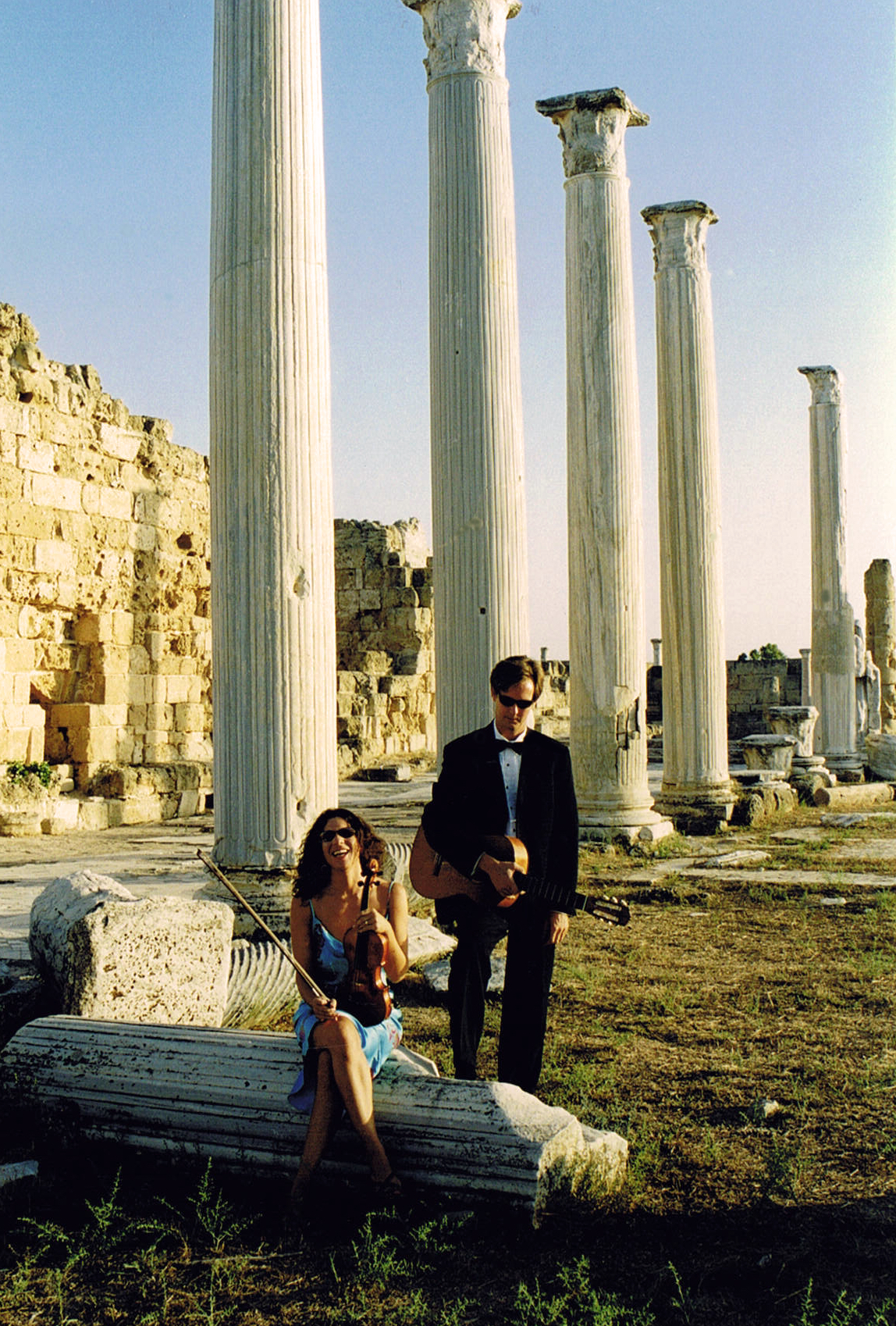 Duo46 in Cyprus